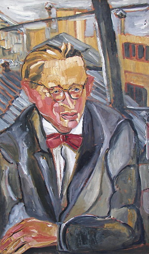 Portrait of Jean Follain, French writer (1903-1971).